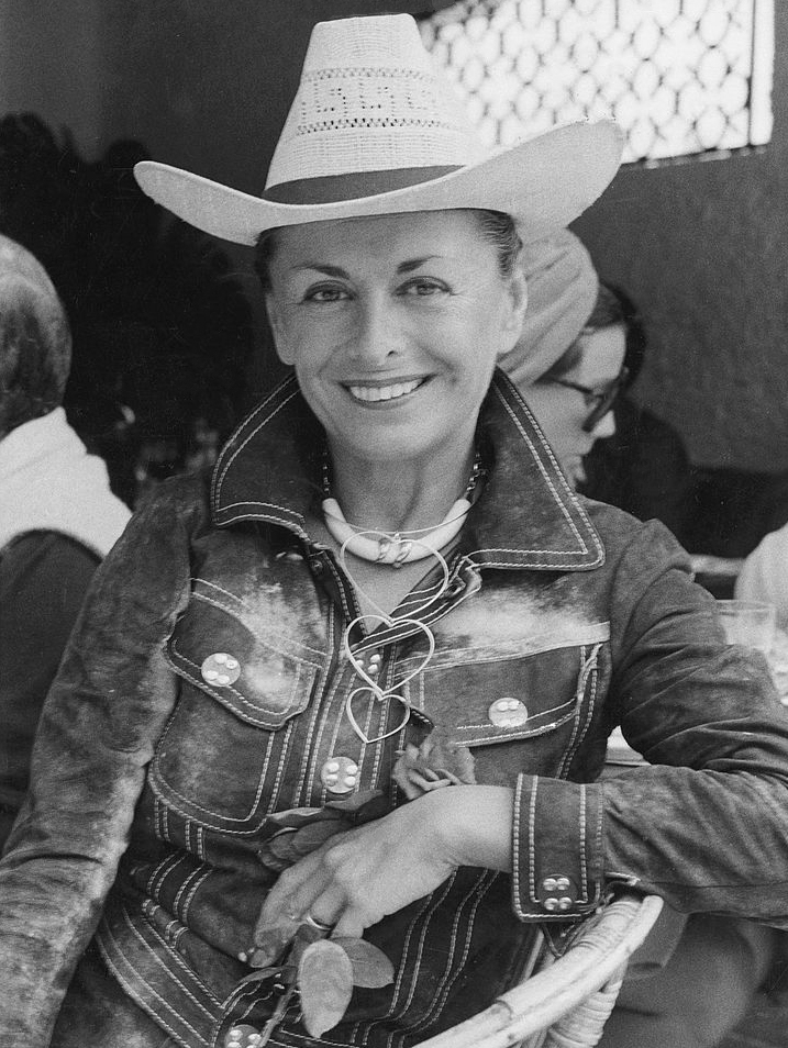 Irene Galitzine, Russian princess and fashion designer naturalized Italian, smiling in denim jacket with a straw hat. Italy, October 1971